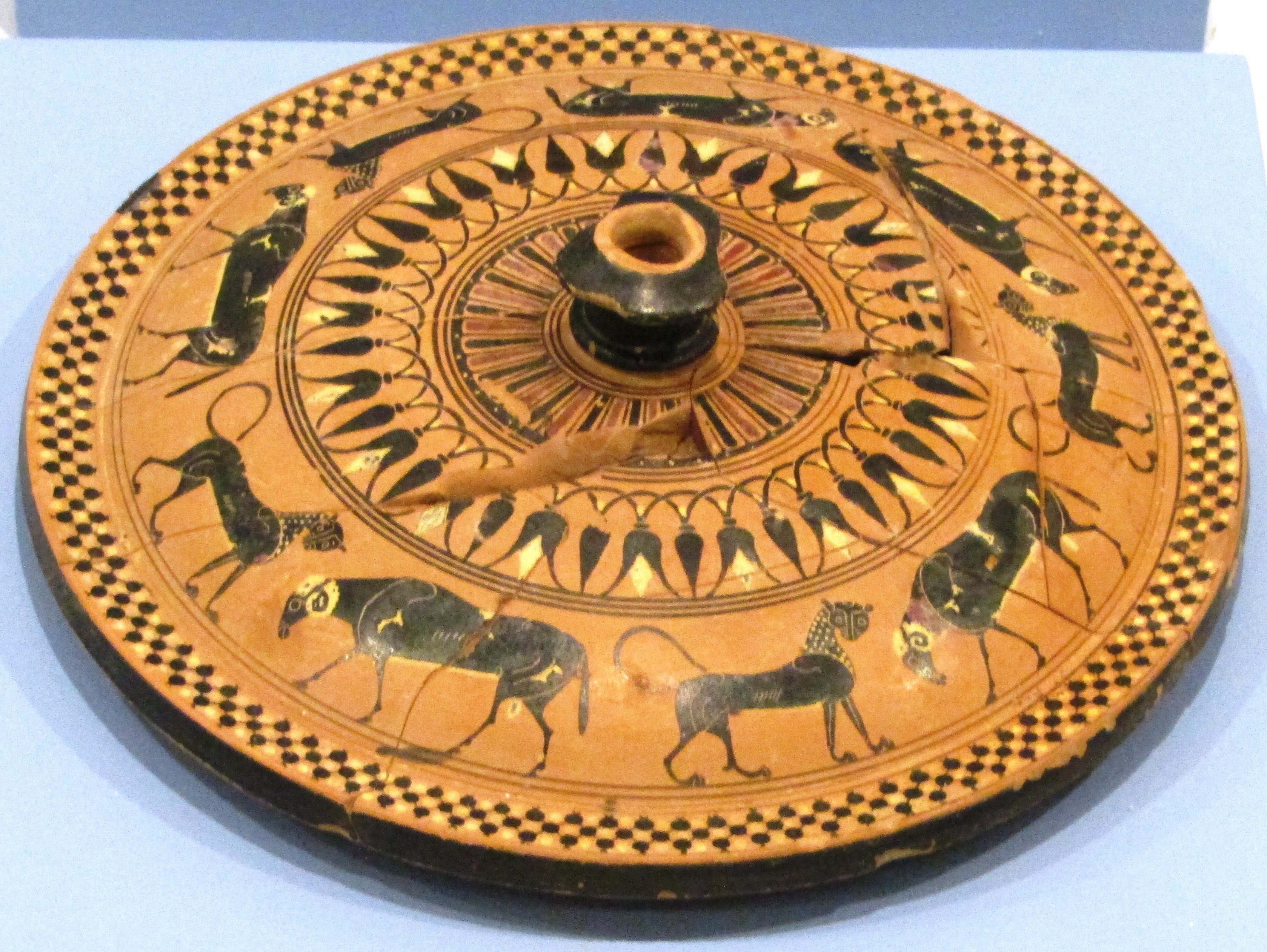 Archaic kilix